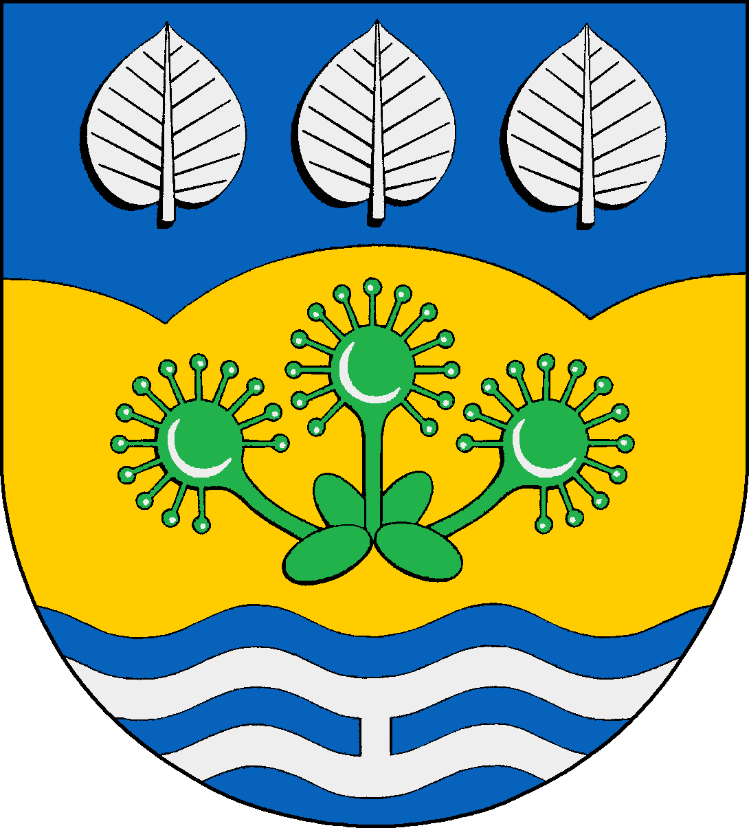 Coat of arms of the municipality Felm in Schleswig-Holstein, Germany.